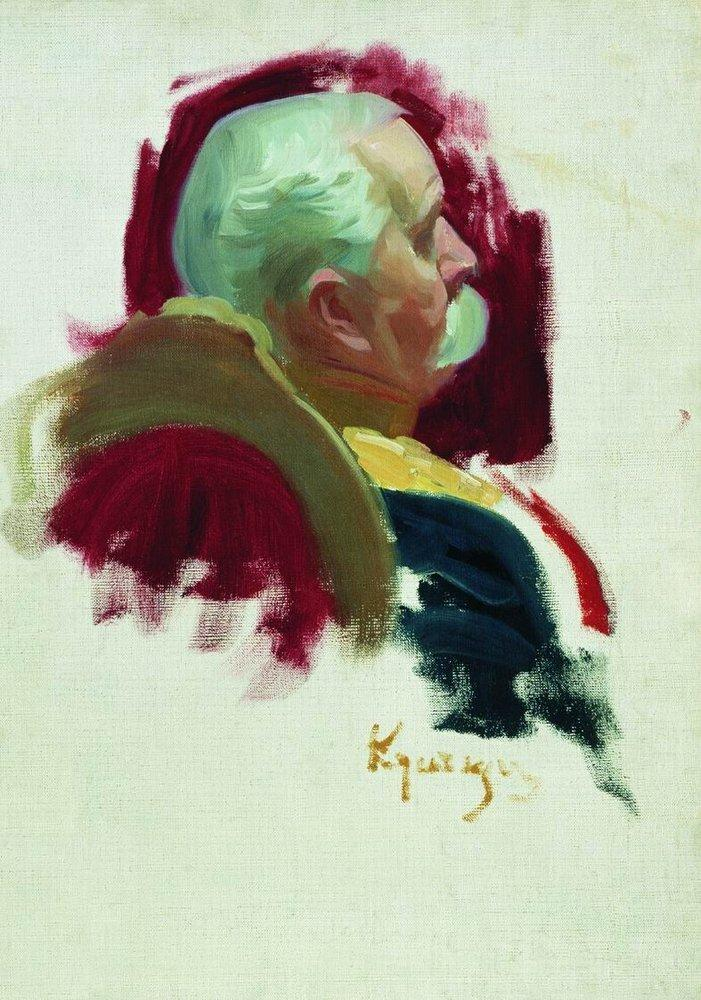 Portrait of member of State Council Pyotr Aleksandrovich Saburov. Study for the picture Formal Session of the State Council. Oil on canvas. 61 × 45 cm. The State Tretyakov Gallery, Moscow.